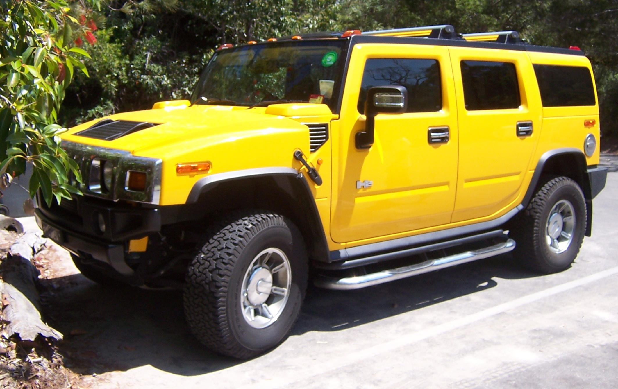 2003–2007 Hummer H2 wagon. Photographed on Fraser Island, Queensland, Australia.